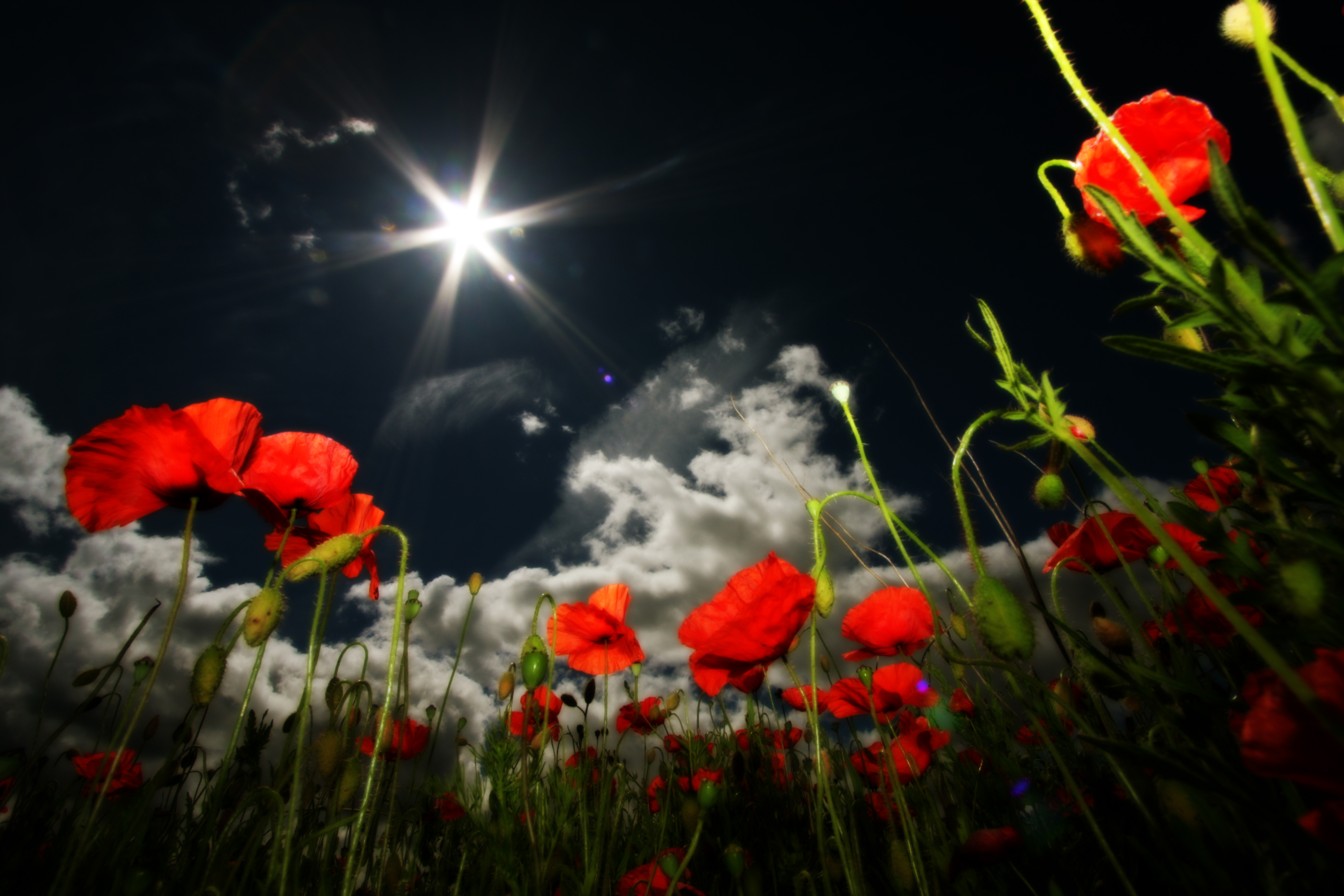 Lesbury, Alnwick, Northumberland